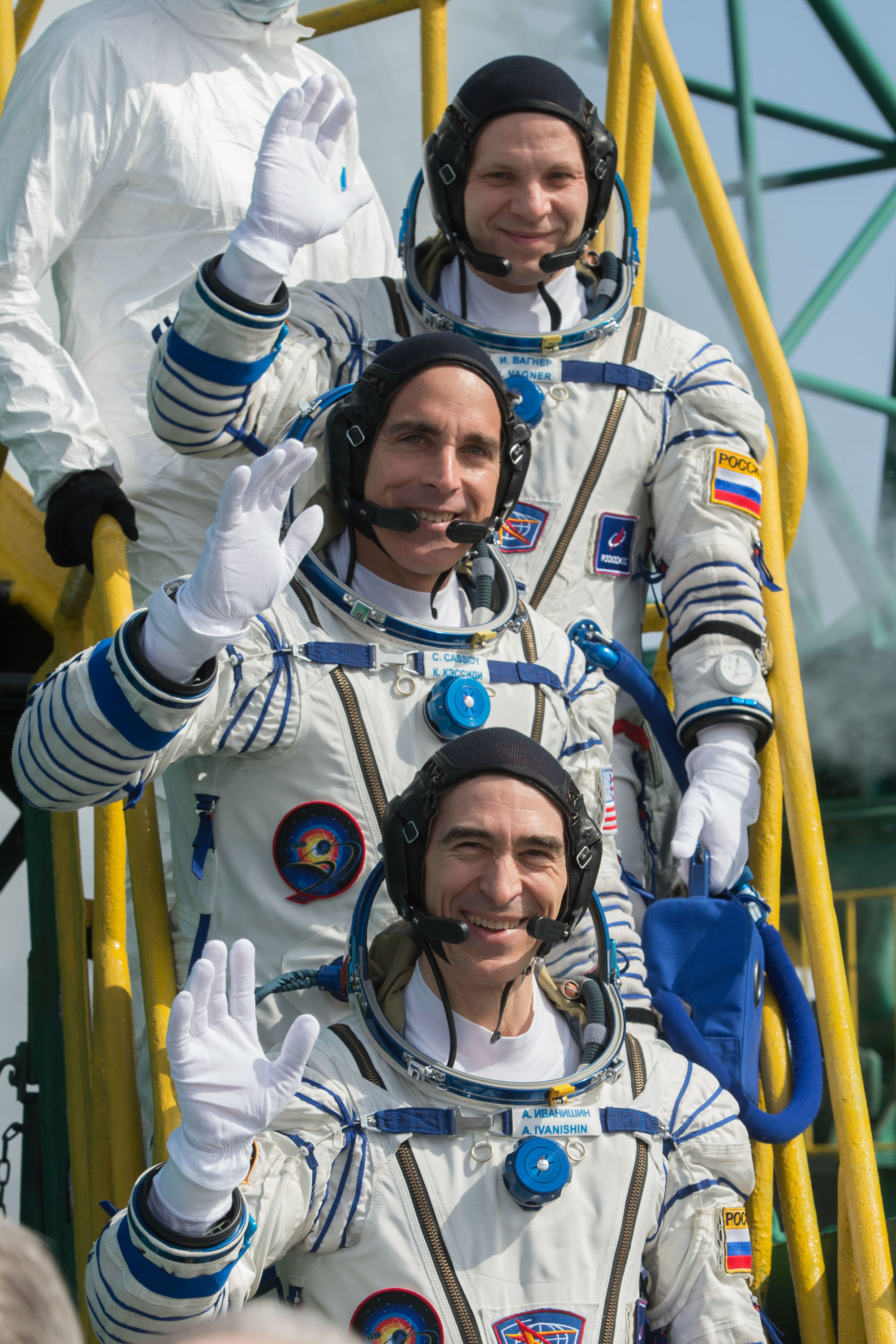 Expedition 63 Crew Waves Farewell - Expedition 63 crewmembers Ivan Vagner of Roscosmos, top, Chris Cassidy of NASA, center, and Anatoly Ivanishin wave goodbye as they prepare to climb aboard the Soyuz MS-16 rocket at Site 31 at the Baikonur Cosmodrome in Kazakhstan, Thursday, April 9, 2020. They launched a short time later to the International Space Station for the start of a six-and-a-half month mission.